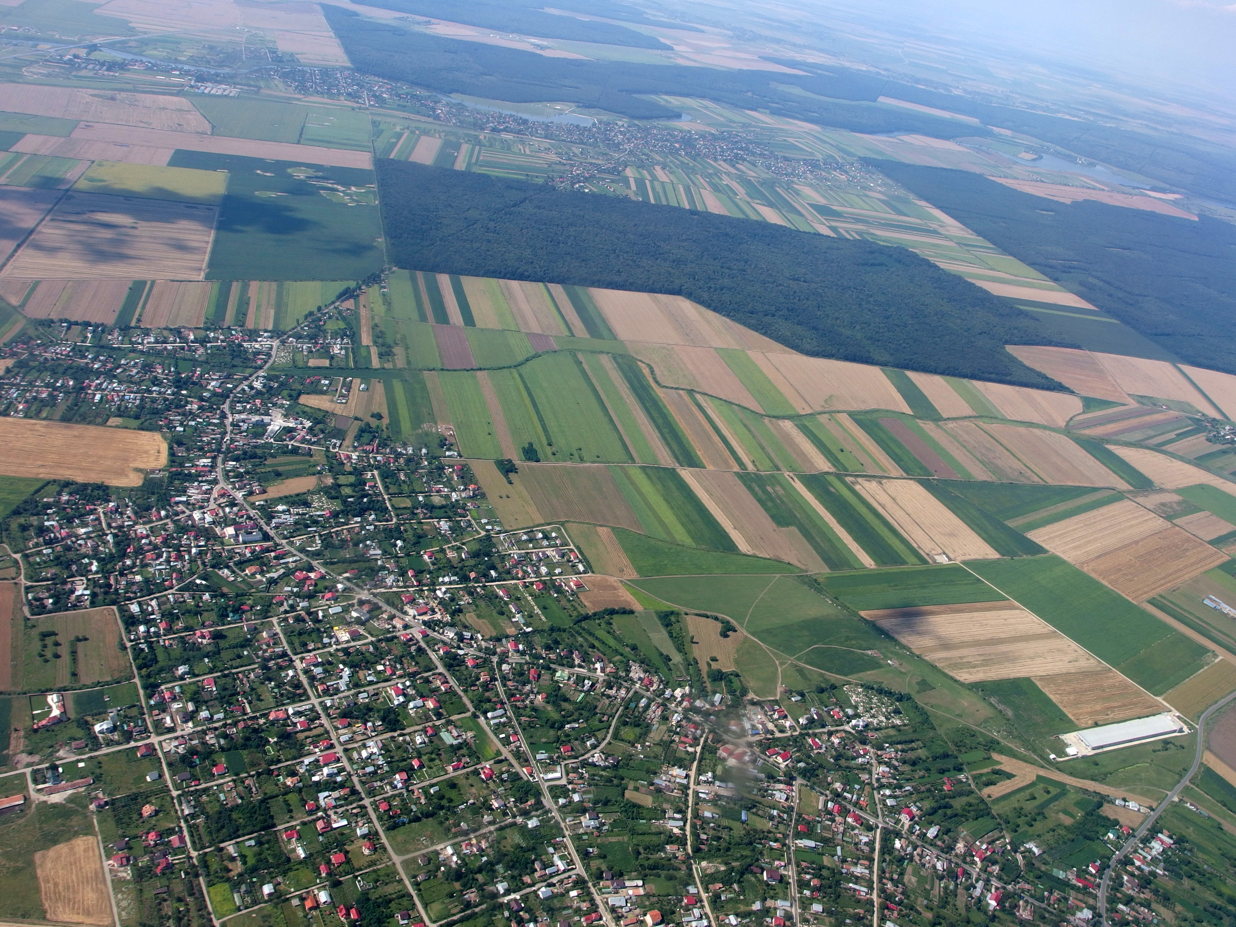 2014-07-03; leaving Otopeni.